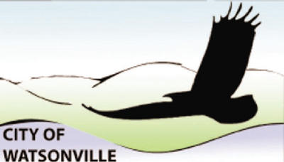 The official city flag of Watsonville, California, adopted by the city council in February 2010.